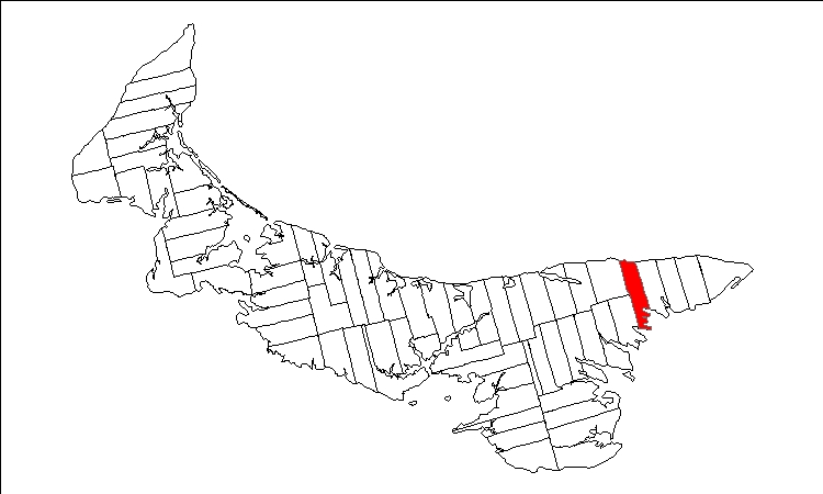 Public domain map of Prince Edward Island created by User:Plasma east with data courtesy of Geogratis, modified to show townships. Released under GFDL (self).